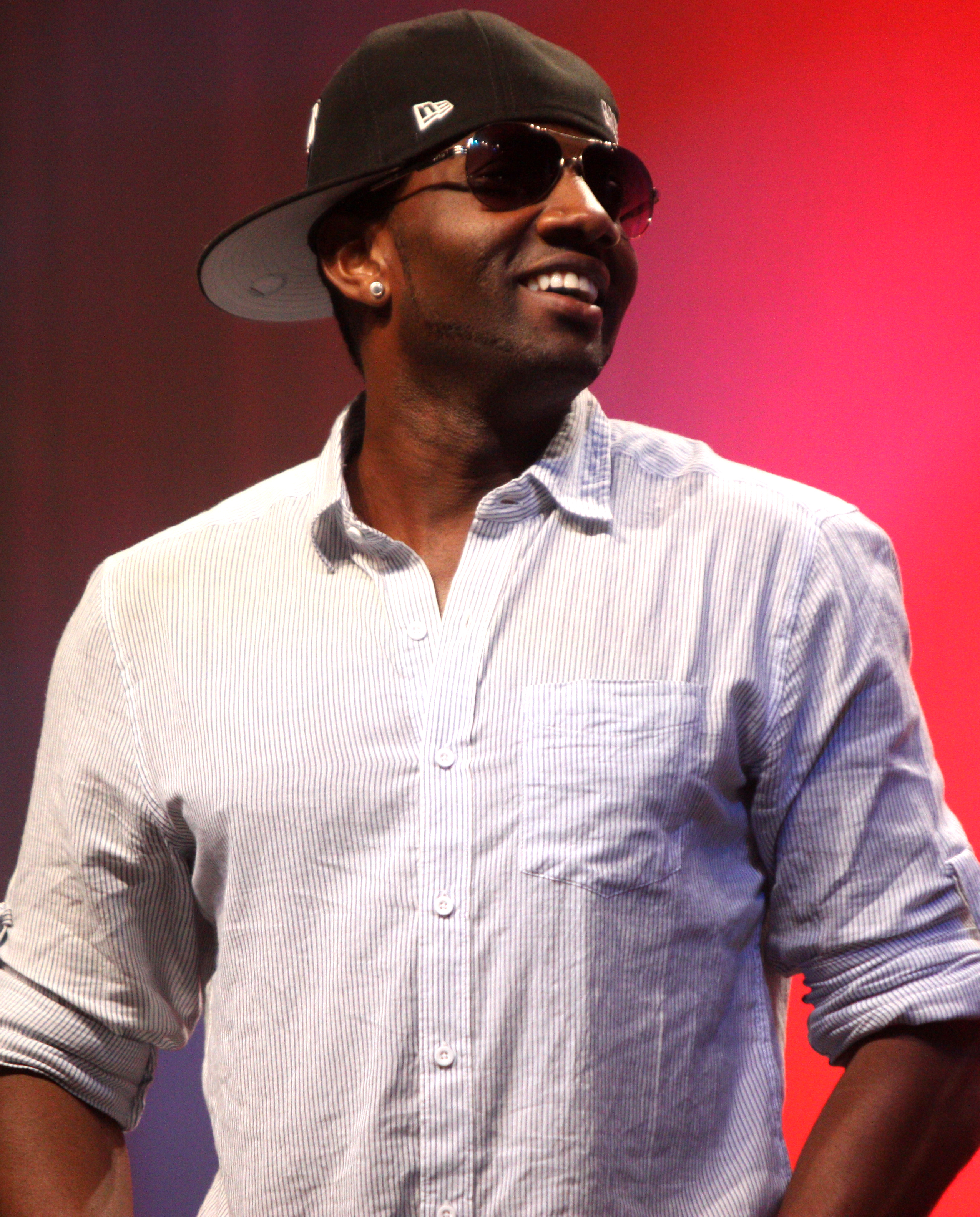 DeStorm Power at the 2012 VidCon in Anaheim, California.